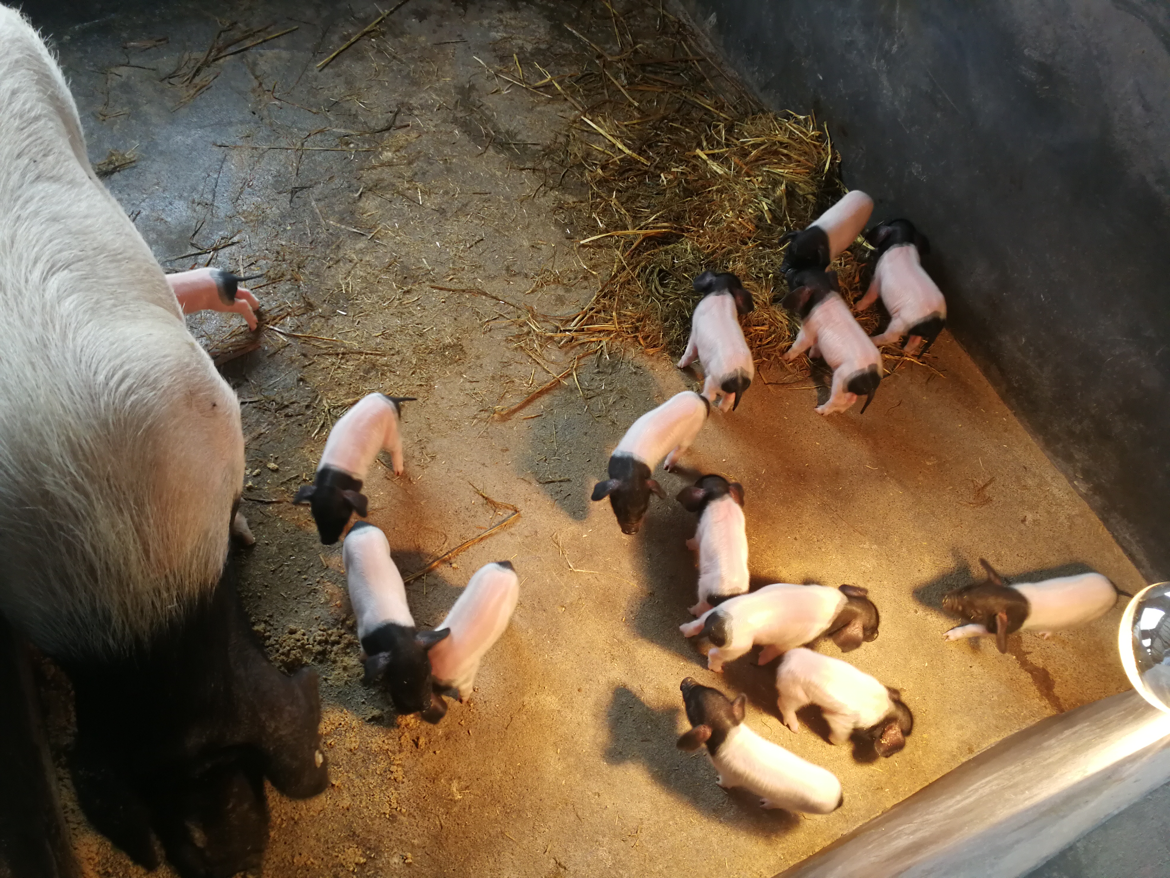 A Jinhua sow with piglets.